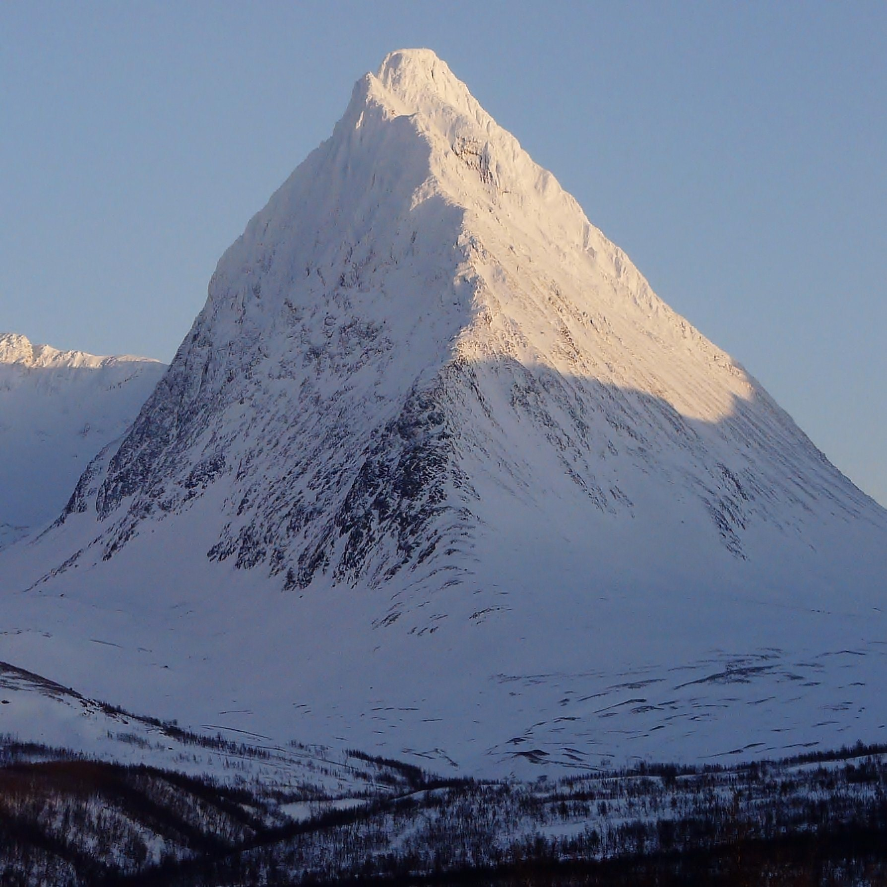 Piggtinden (1,505 m) seen from the west in the municipality of Balsfjord, Norway in 2009 February.